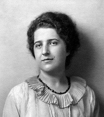 Photo of Alba Rosa Viëtor